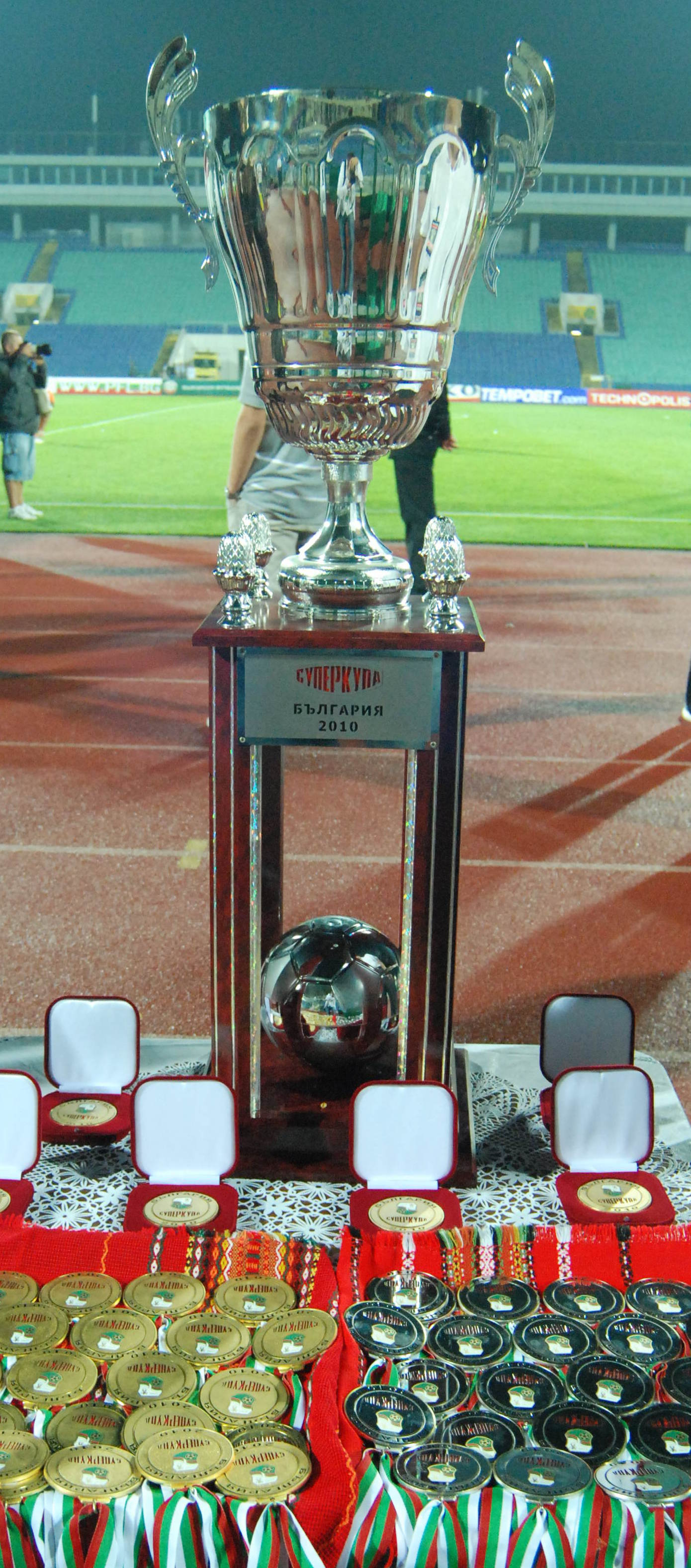 Litex Lovech vs. Beroe 2-1, Bulgarian Super Cup, Stadion Vasil Levski (Sofia), 11 August 2010